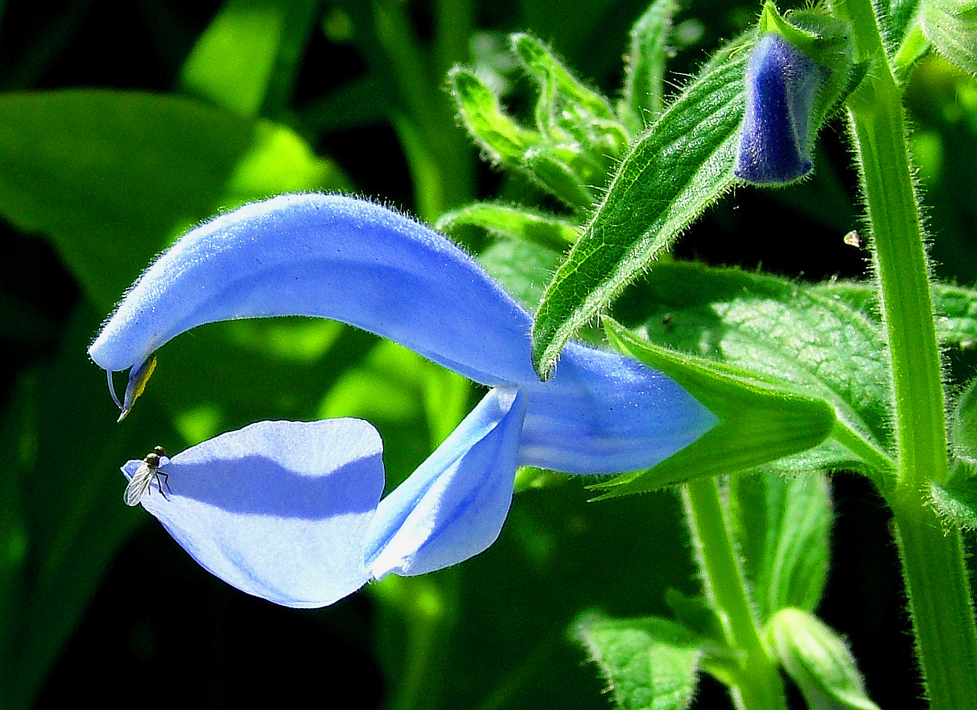 Salvia Cambridge Blue Flower